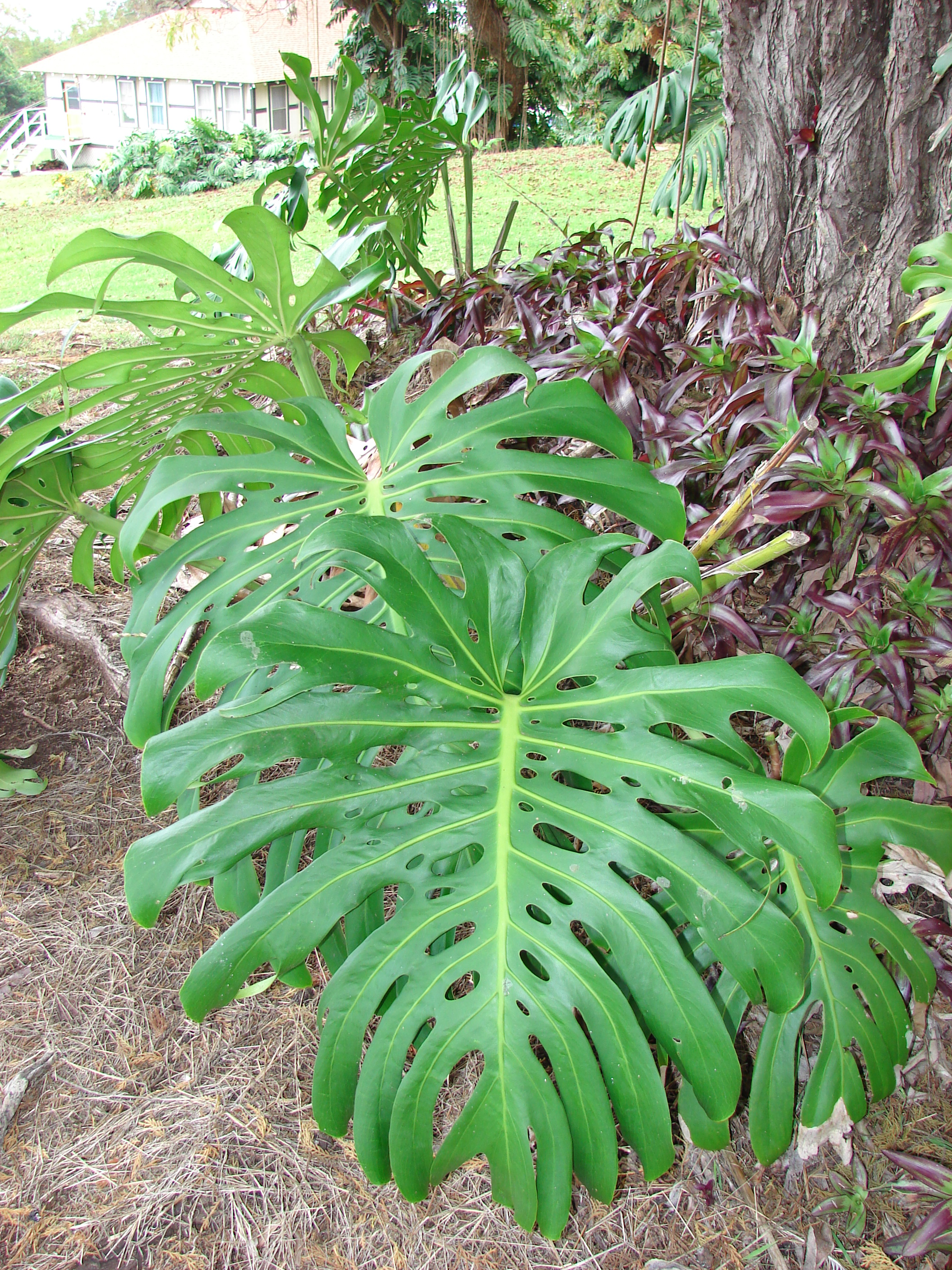 Monstera deliciosa (habit). Location: Maui, Keokea